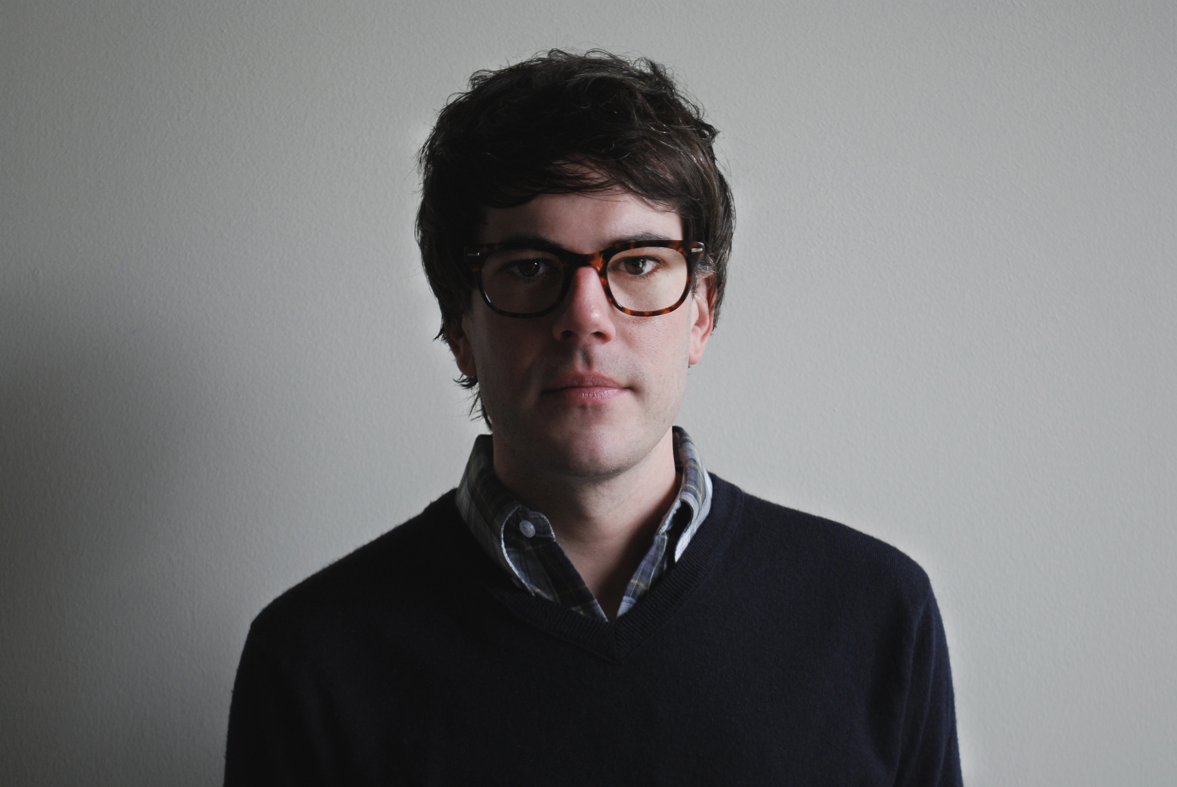 Press photo of Adam Christian Clark for the 2012 Tribeca Film Festival